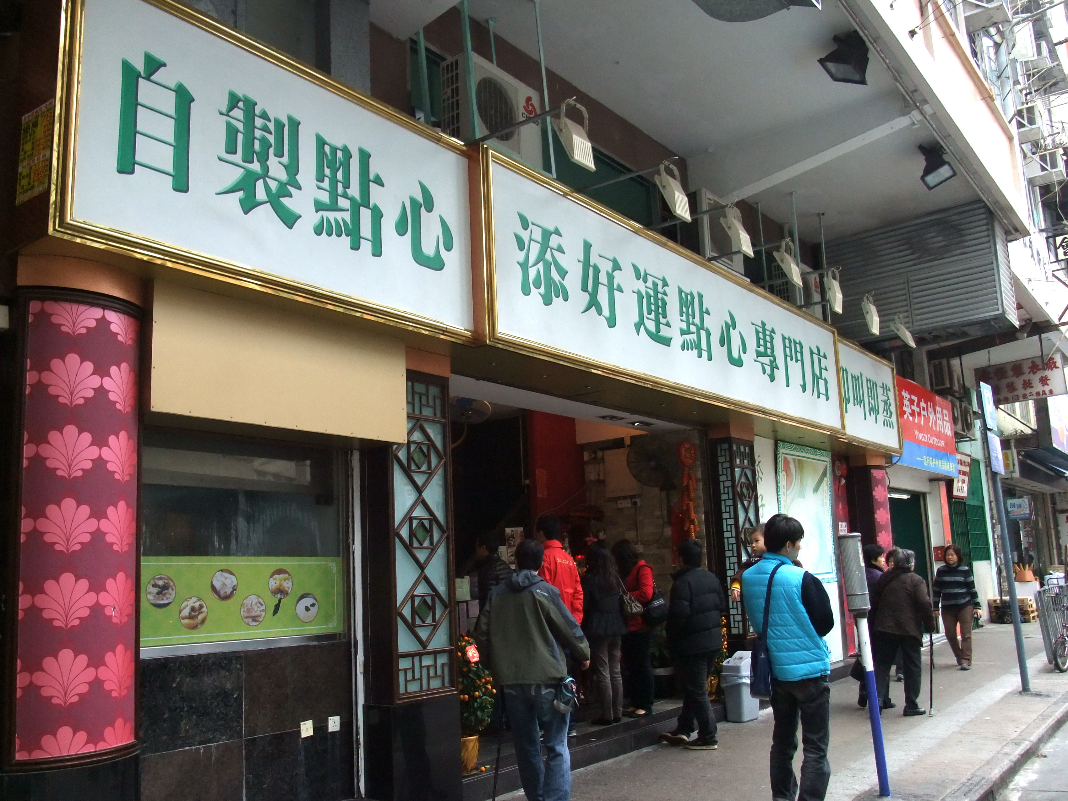 Tim Ho Wan, the Dim-Sum Specialists, Sham Shui Po shop, Kowloon, Hong Kong.